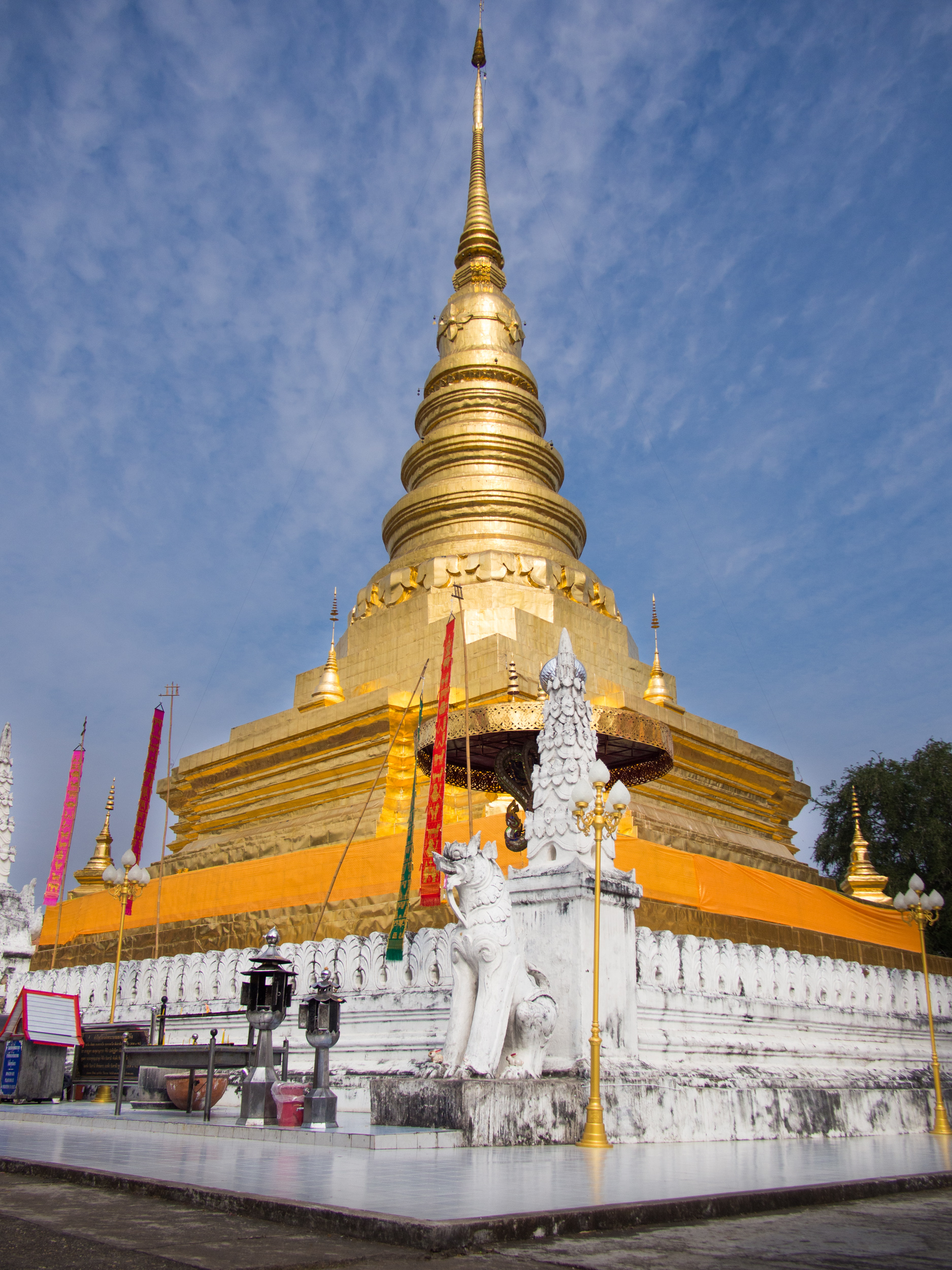 The chedi inside the enclosed section of Wat Phra That Chae Haeng.